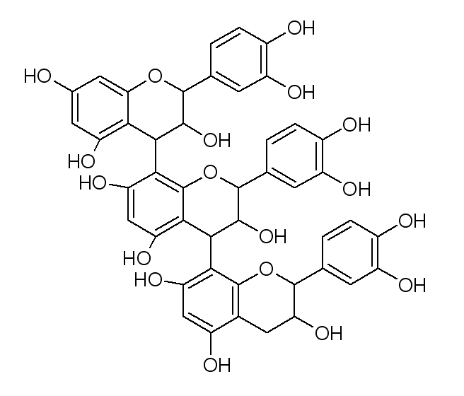 chemical structure of proanthocyanidin C1